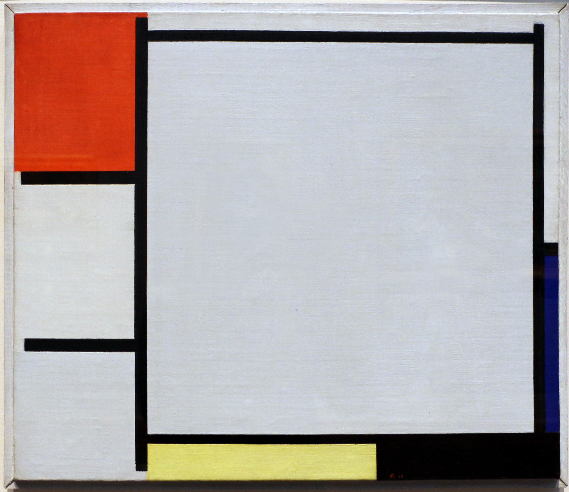 Paintings in the Toledo Museum of Art